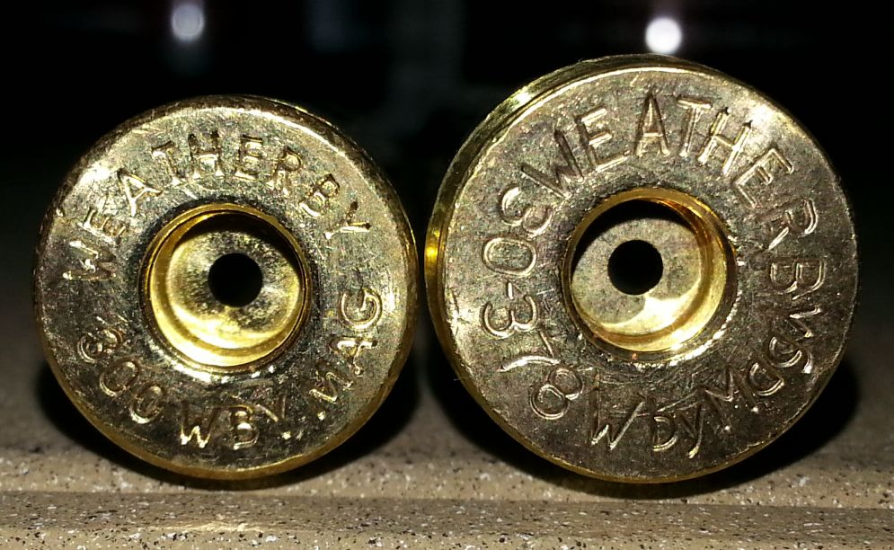 The .30-378 cartridge (right) has a noticeably larger body diameter than its .300 predecessor (left).